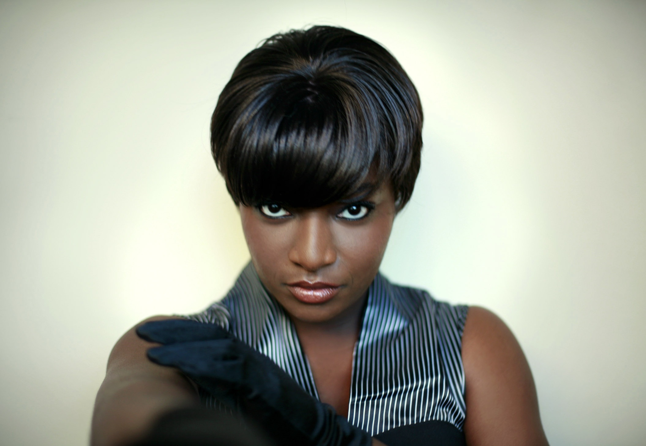 Ketsia